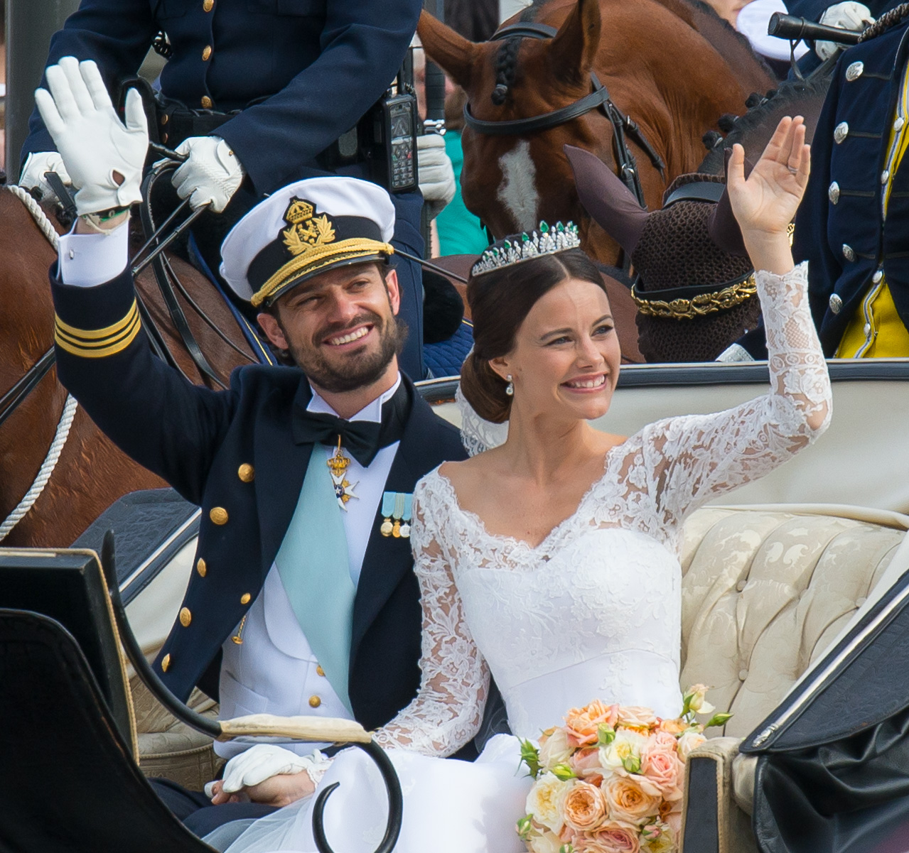 Prince Carl Philip and Princess Sofia after the ceremony in the Royal Chapel and during the procession through central Stockholm. Picture taken at Gustav Adolfs Torg 13 June 2015.